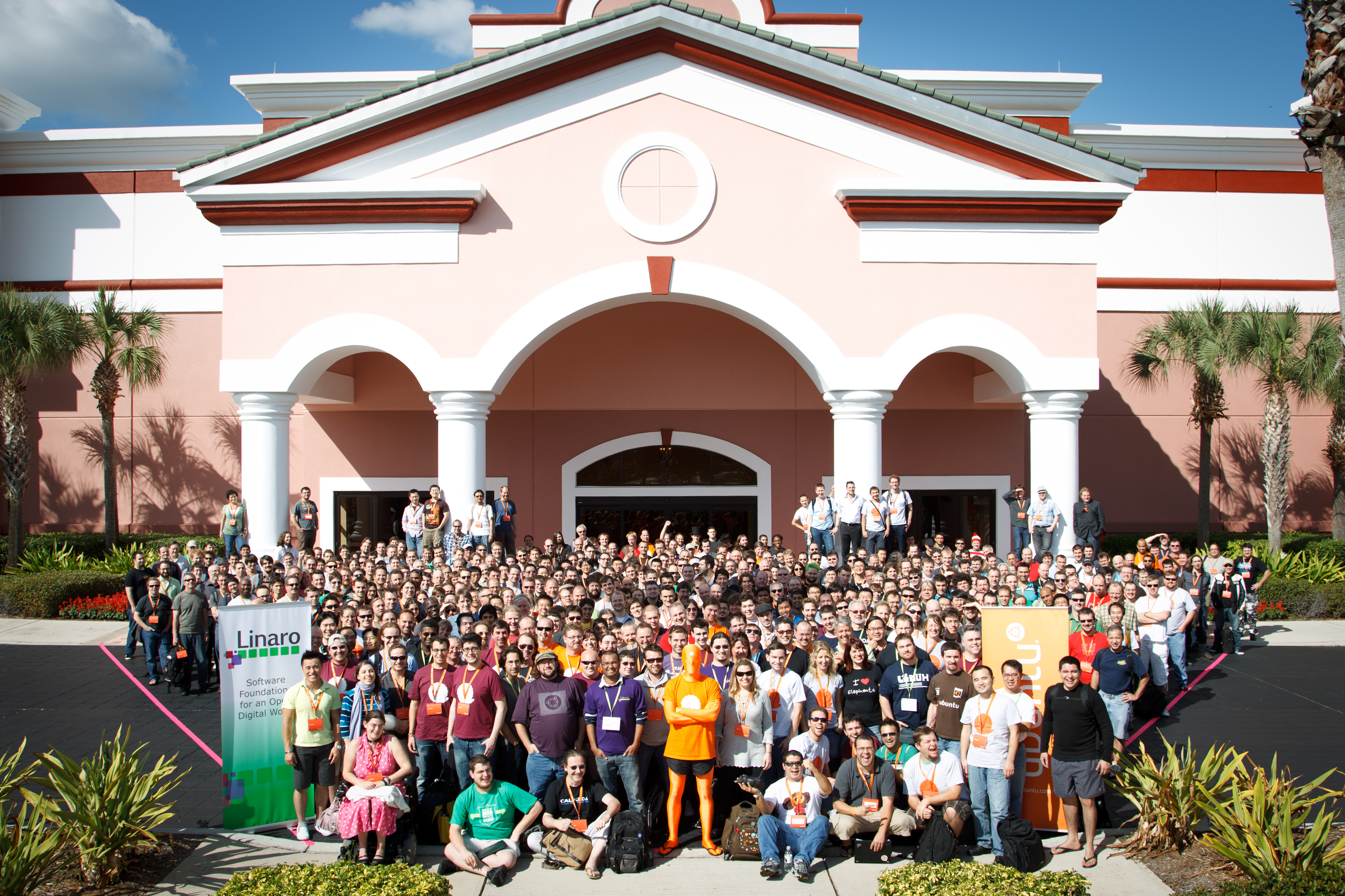 Extra Large group photo from Ubuntu Developer Sumit P at Orlando, Florida